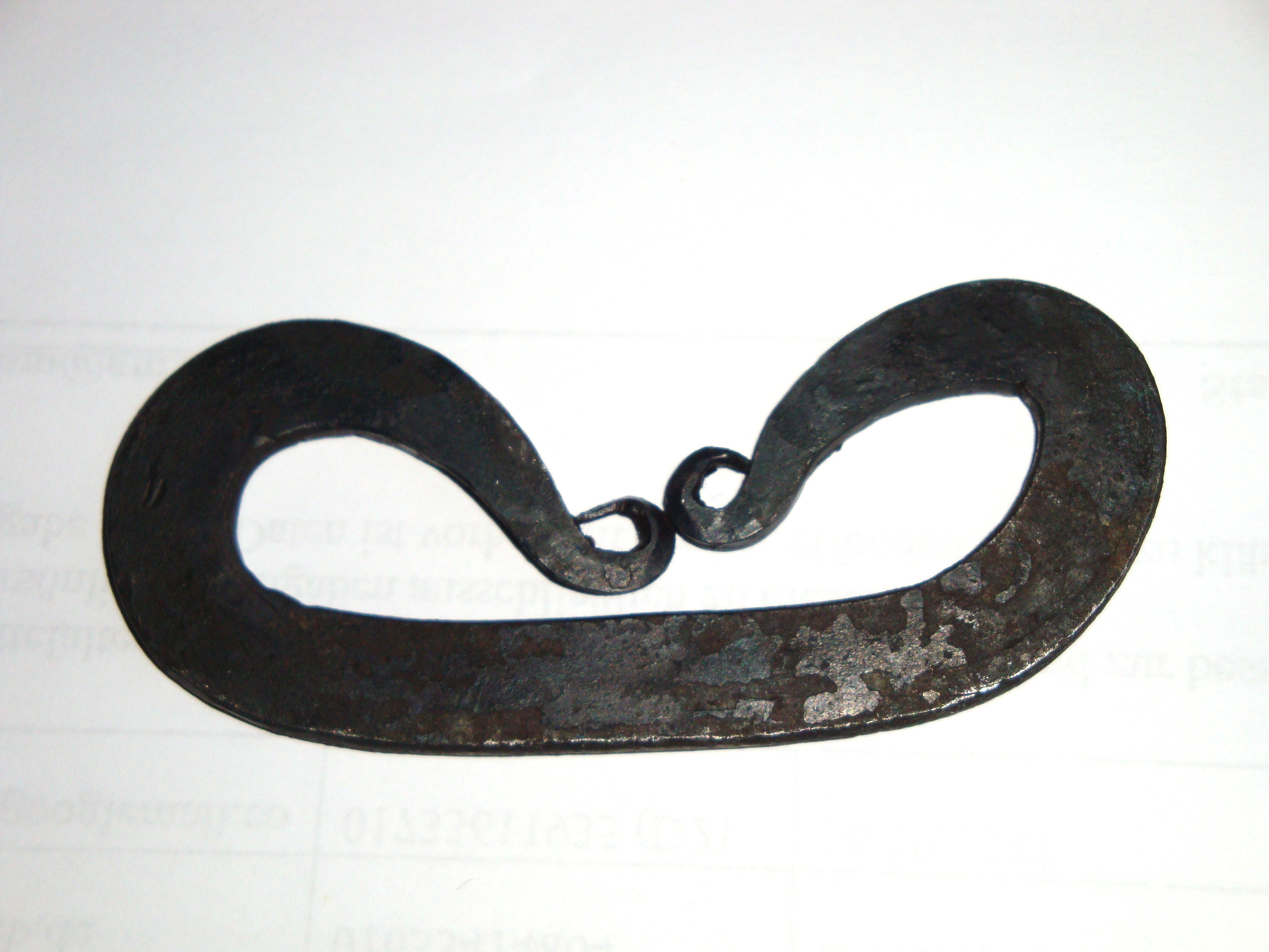 Fire striker (Fire steels)